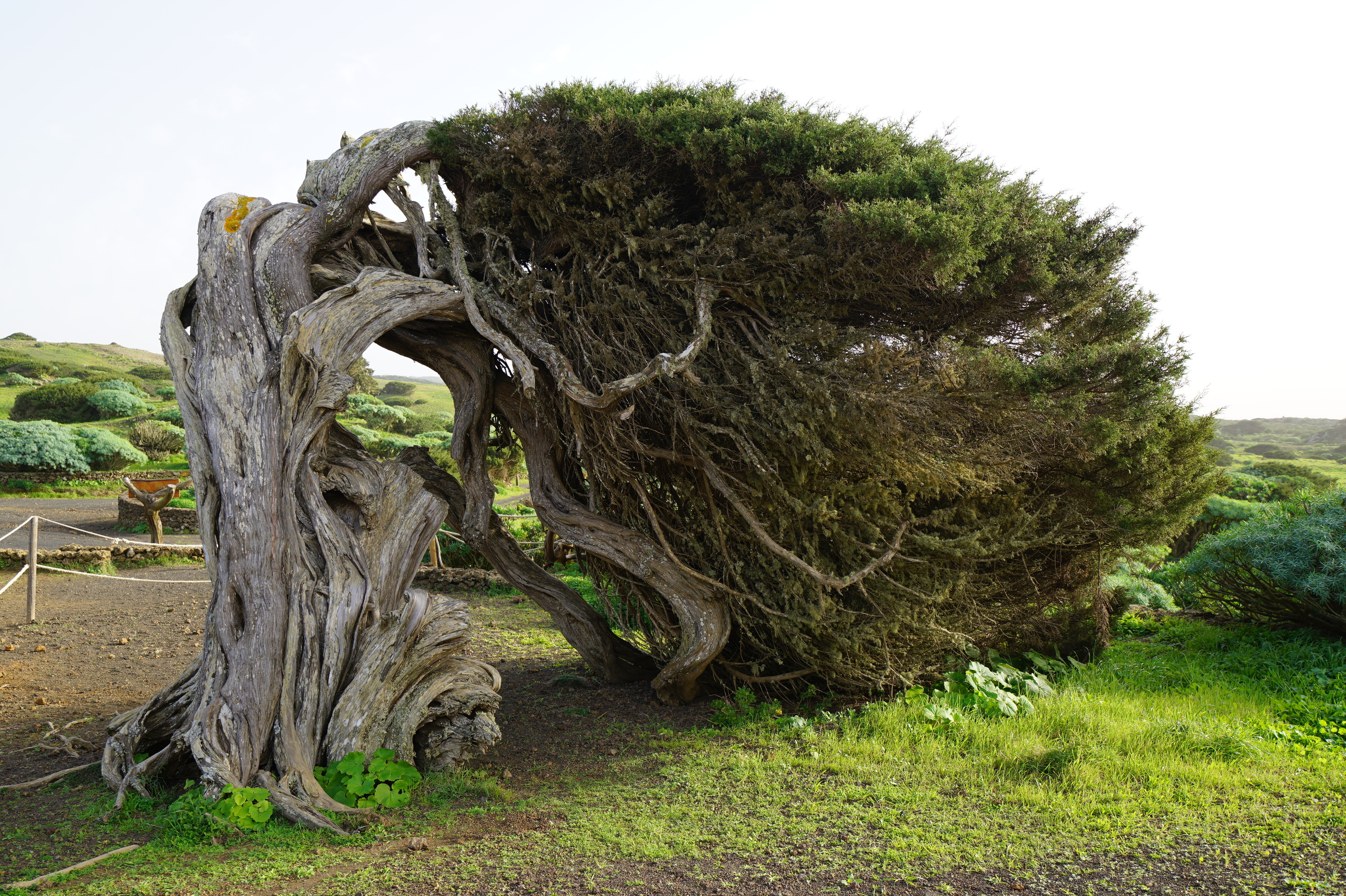 Juniperus phoenicea El Hierro